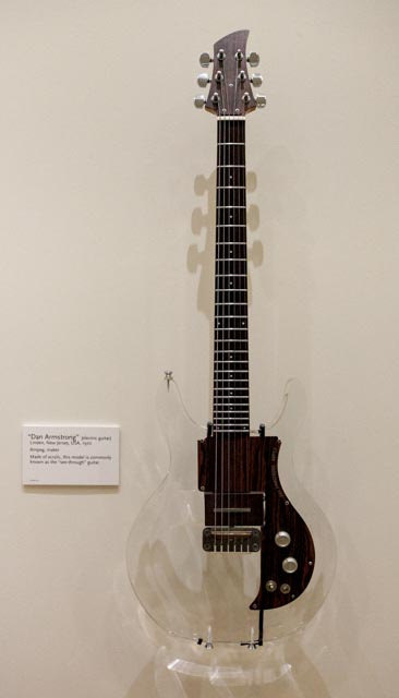 Dan Armstrong "see-through" electric guitar from 1970 for Ampeg. Photograph of musical instrument taken at the Musical Instrument Museum (Phoenix) on 2011-04-26. "Dan Armstrong" (electric guitar) Linden, New Jersey, USA, 1970 Ampeg, maker Made of acrylic, this model is commonly known as the "see-through" guitar. We read about the Musical Instrument Museum (MIM) on Trip Advisor - it was the top rated attraction in Phoenix - and now we can see why! The museum is dedicated to musical instruments from around the world - the collection is fascinating, the exhibits are great and the hands-on displays were fun. We spent almost 5 hours here and still felt rushed - this place is definitely worth a detour. I know nothing about musical instruments so if you happen to know what a particular instrument is, please feel free to comment on it. I tried to include as many labels as possible. The museum is in Phoenix, AZ - we visited it in March 2014.